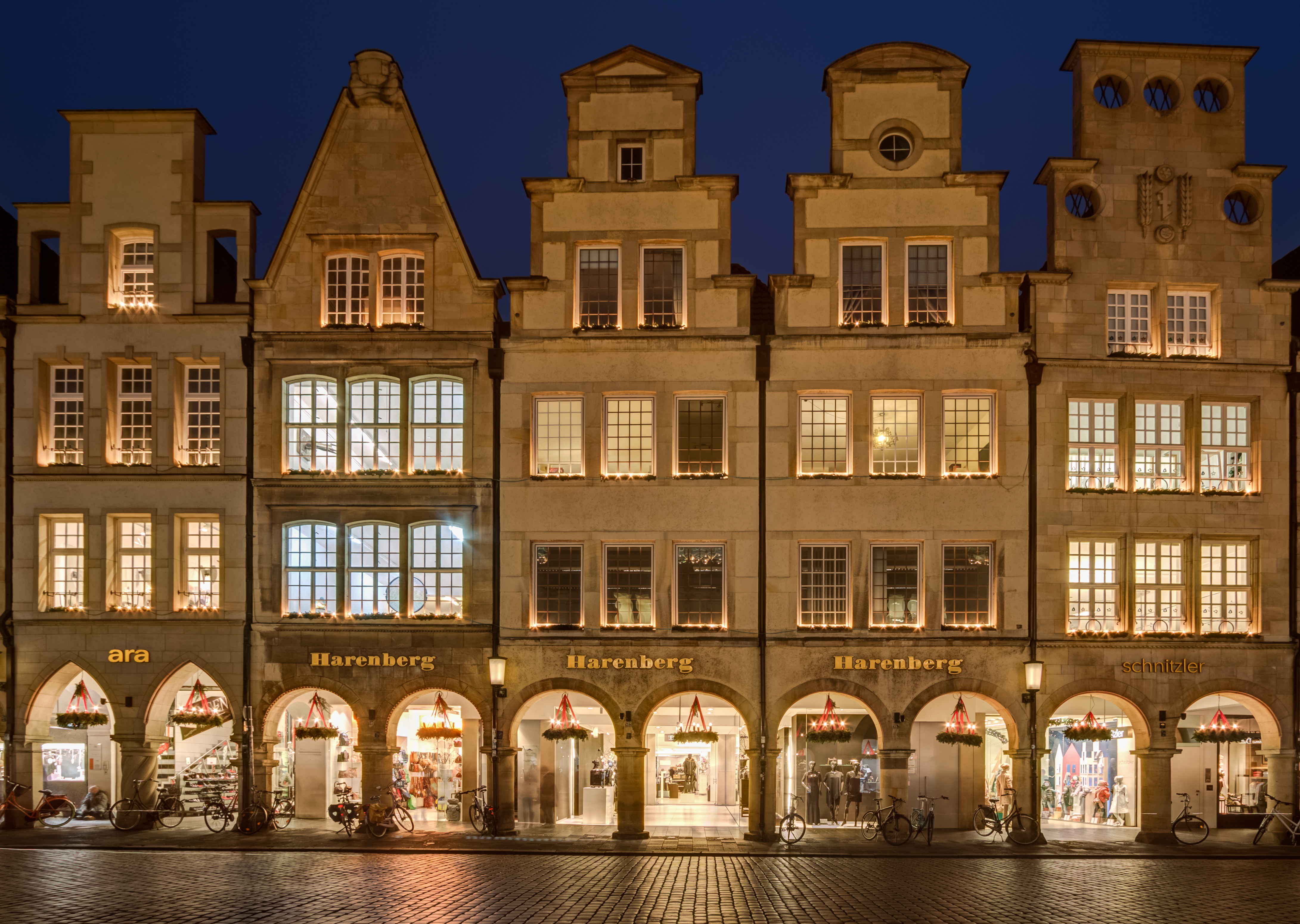 Prinzipalmarkt, Münster, North Rhine-Westphalia, Germany